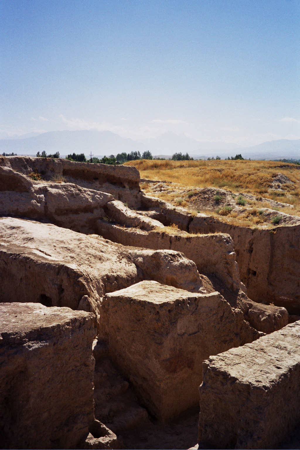 more ruins. in the holes in the stone you could still find charred bits, which are the remnants of the wood posts that were burned by the arab invaders over 1000 years ago